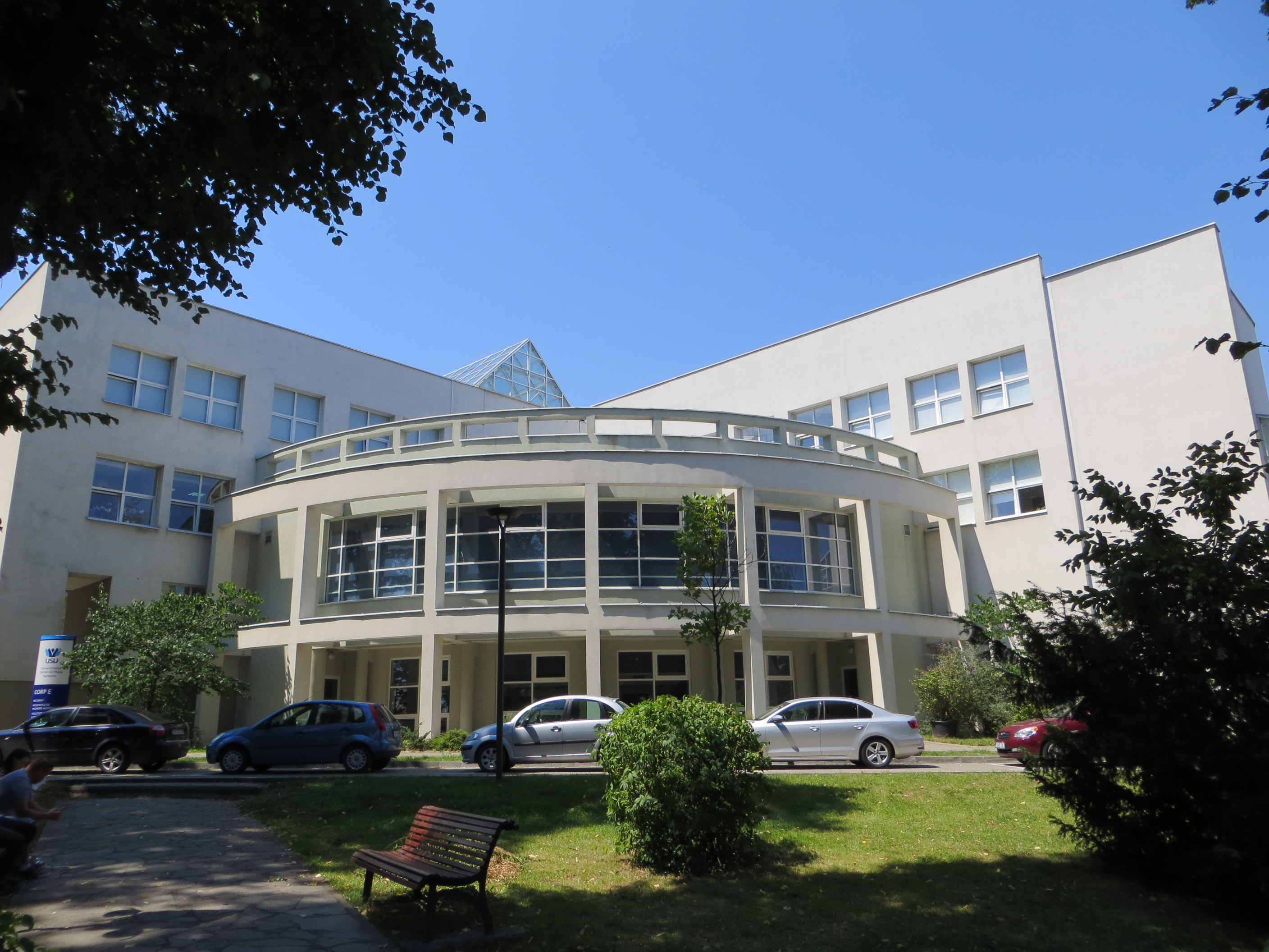 Ştefan cel Mare University in Suceava.